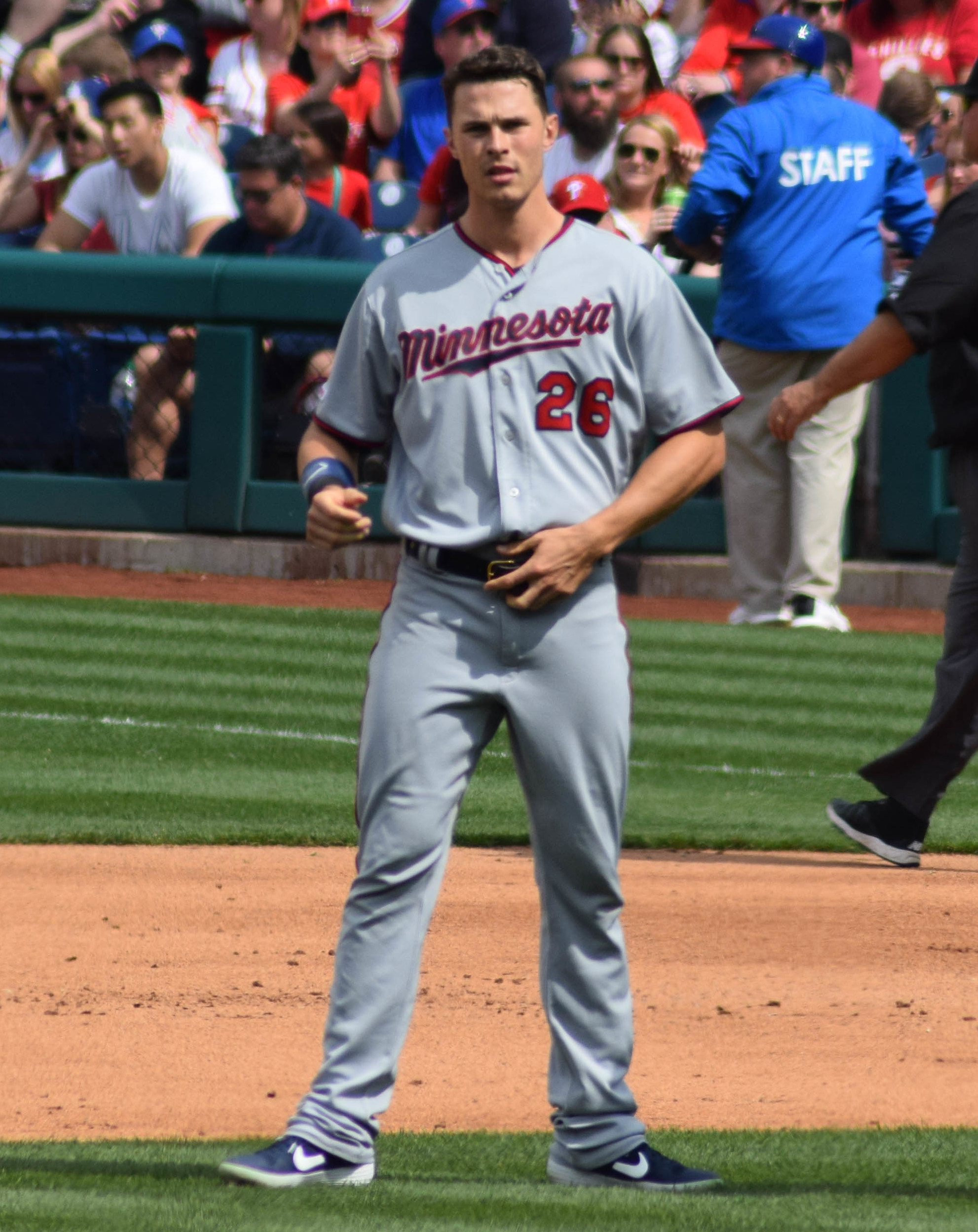 Max Kepler and Tommy Watkins of the Minnesota Twins walk off the field during a 2019 game at Citizens Bank Park in Philadelphia